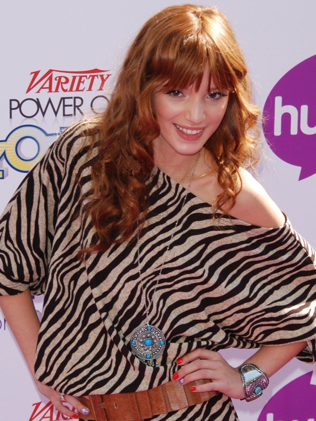 Actress Bella Thorne attends the Variety's Power of Youth Event at Paramount Studios in Hollywood, CA, Oct 24, 2010